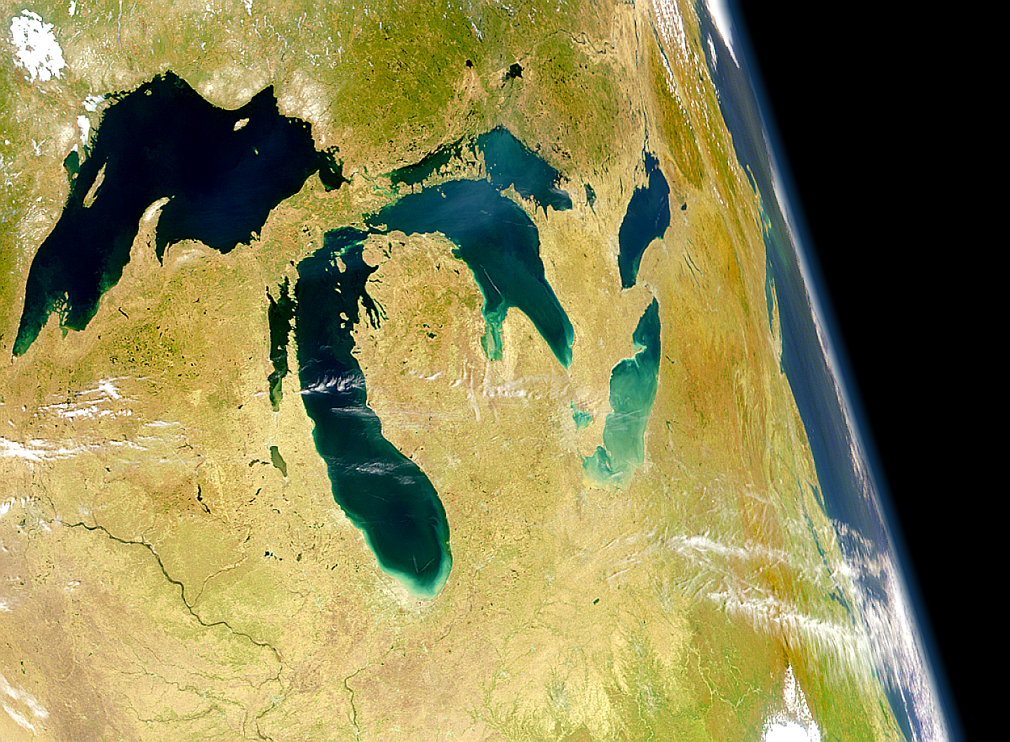 A view of the Great Lakes in a satellite overpass.